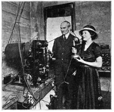 Mary White and Lee DeForest broadcasting at 6XC, from page 368 of the June, 1921, Pacific Radio News